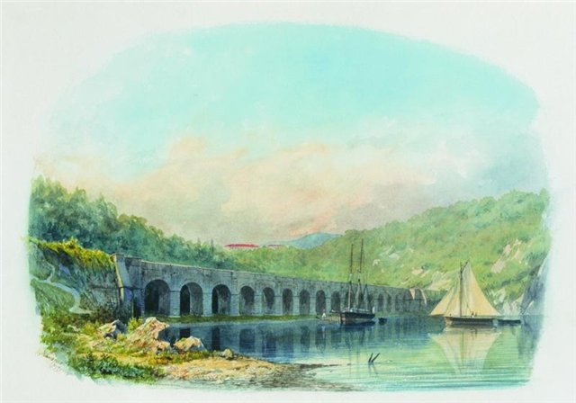 Акведук Килен-балки в 1850 году